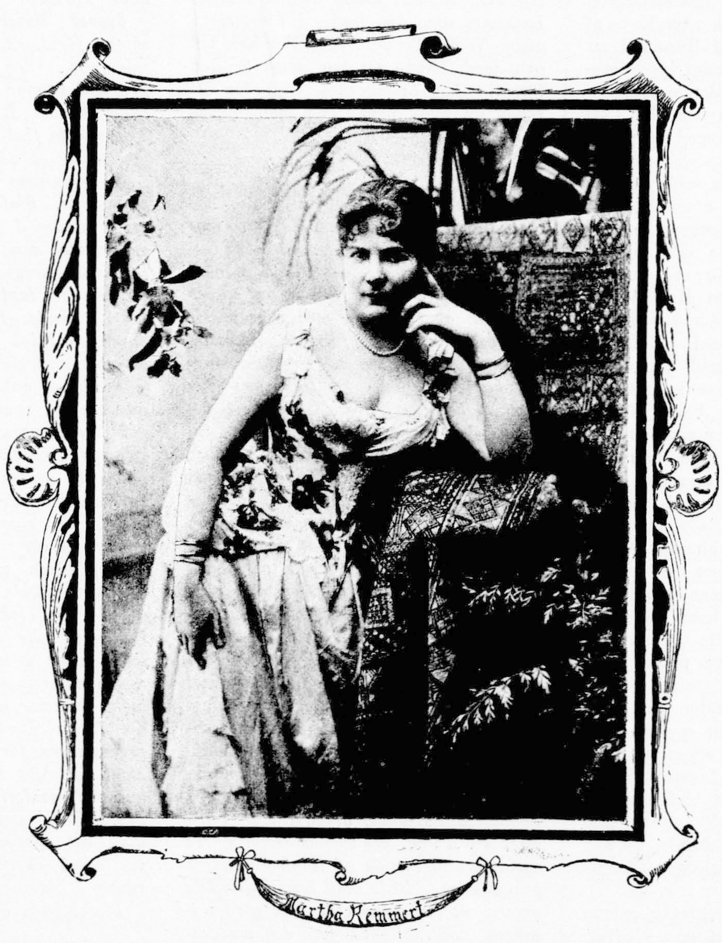 Martha Remmert (1864-1941)